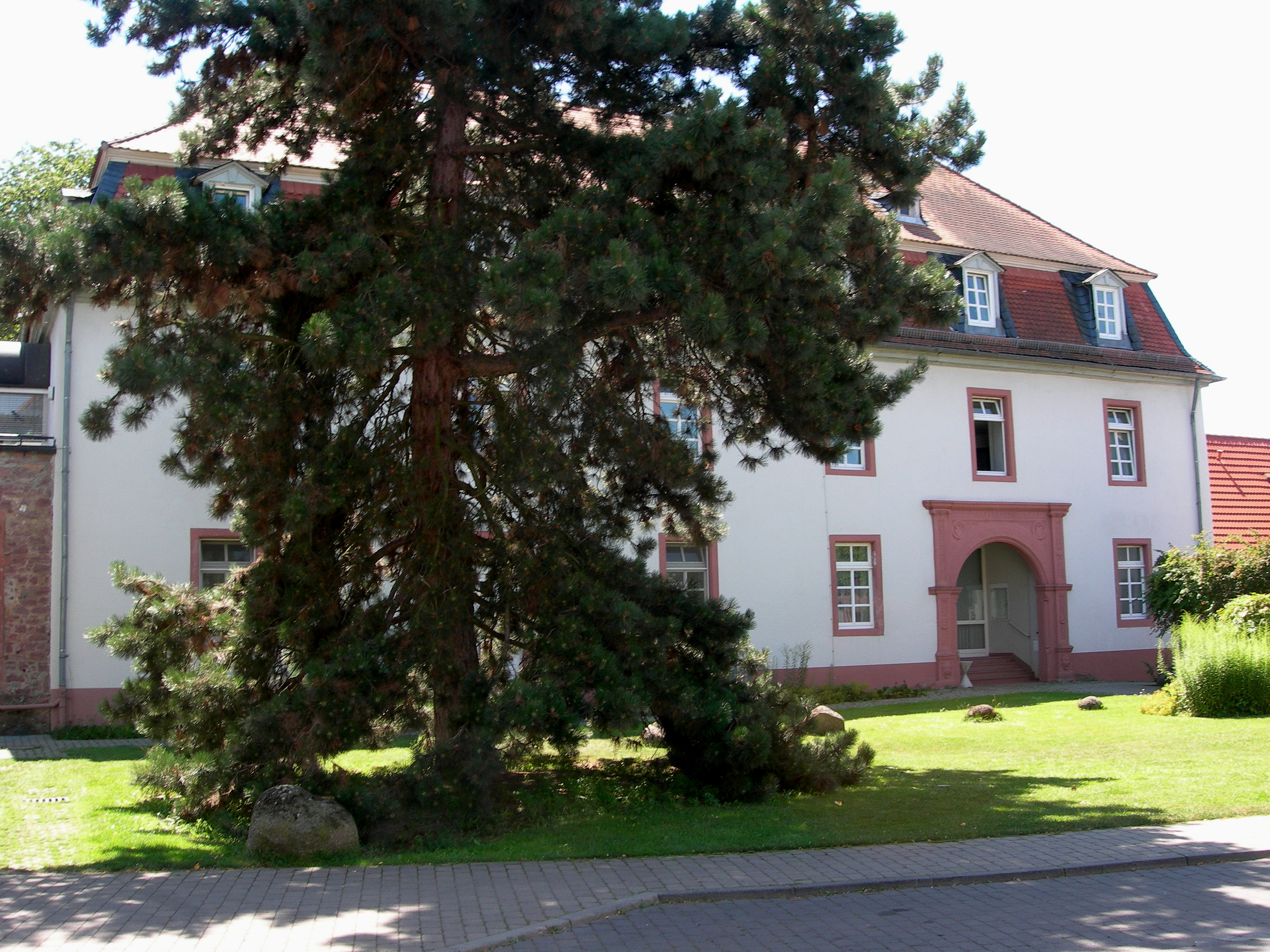 Weiterstadt-Gräfenhausen (Hesse), former castle